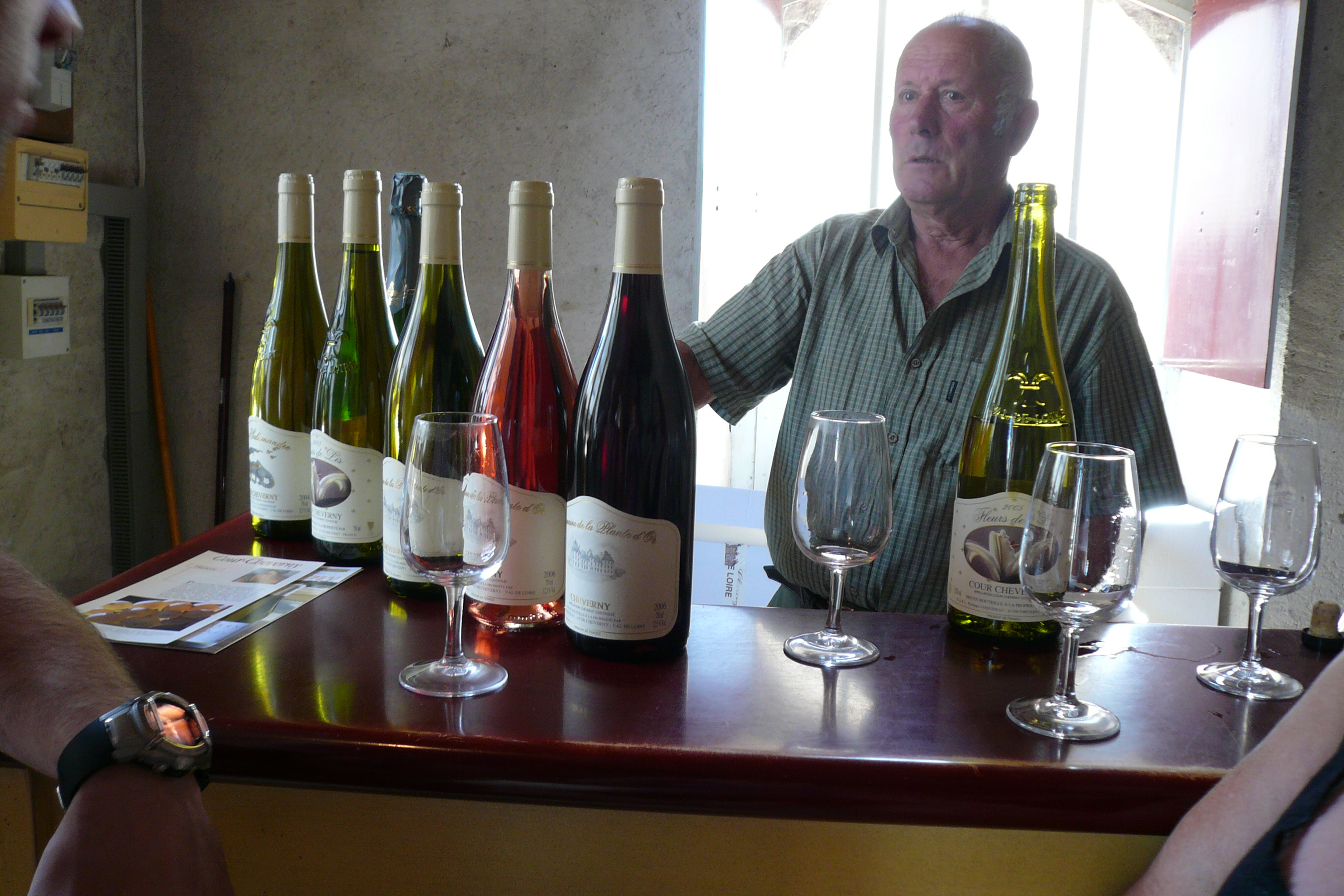 From author: "Just outside the castle a community room dedicated to wine tastings of the local wine producers."